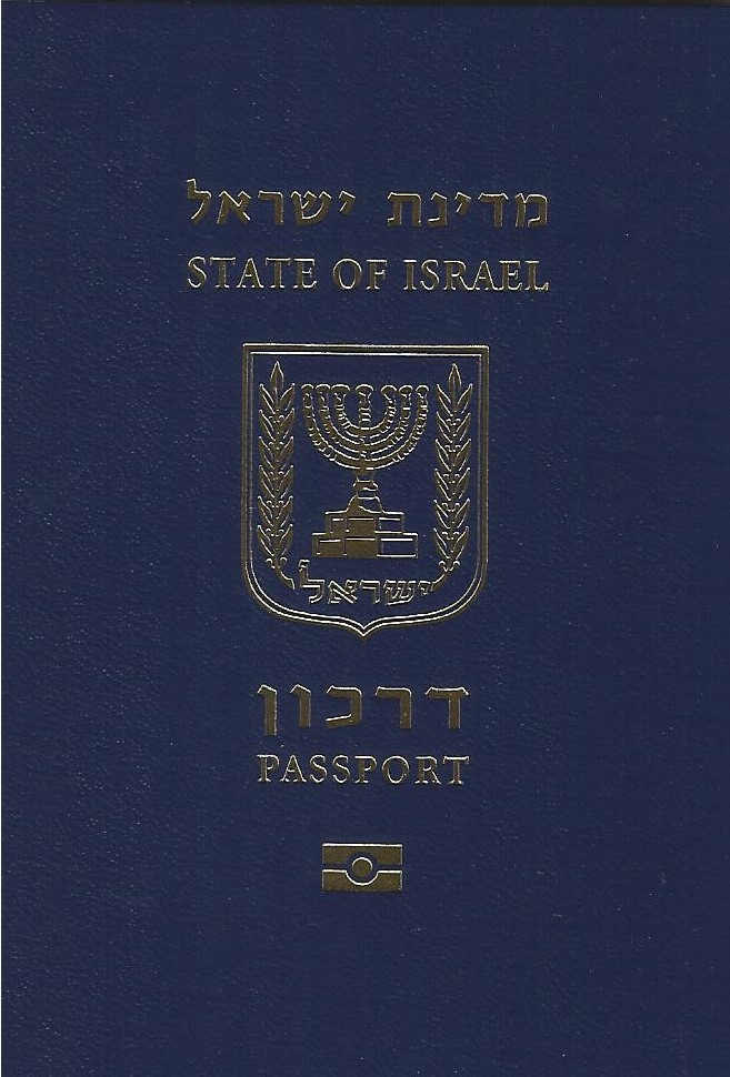 Israeli biometric passport Front